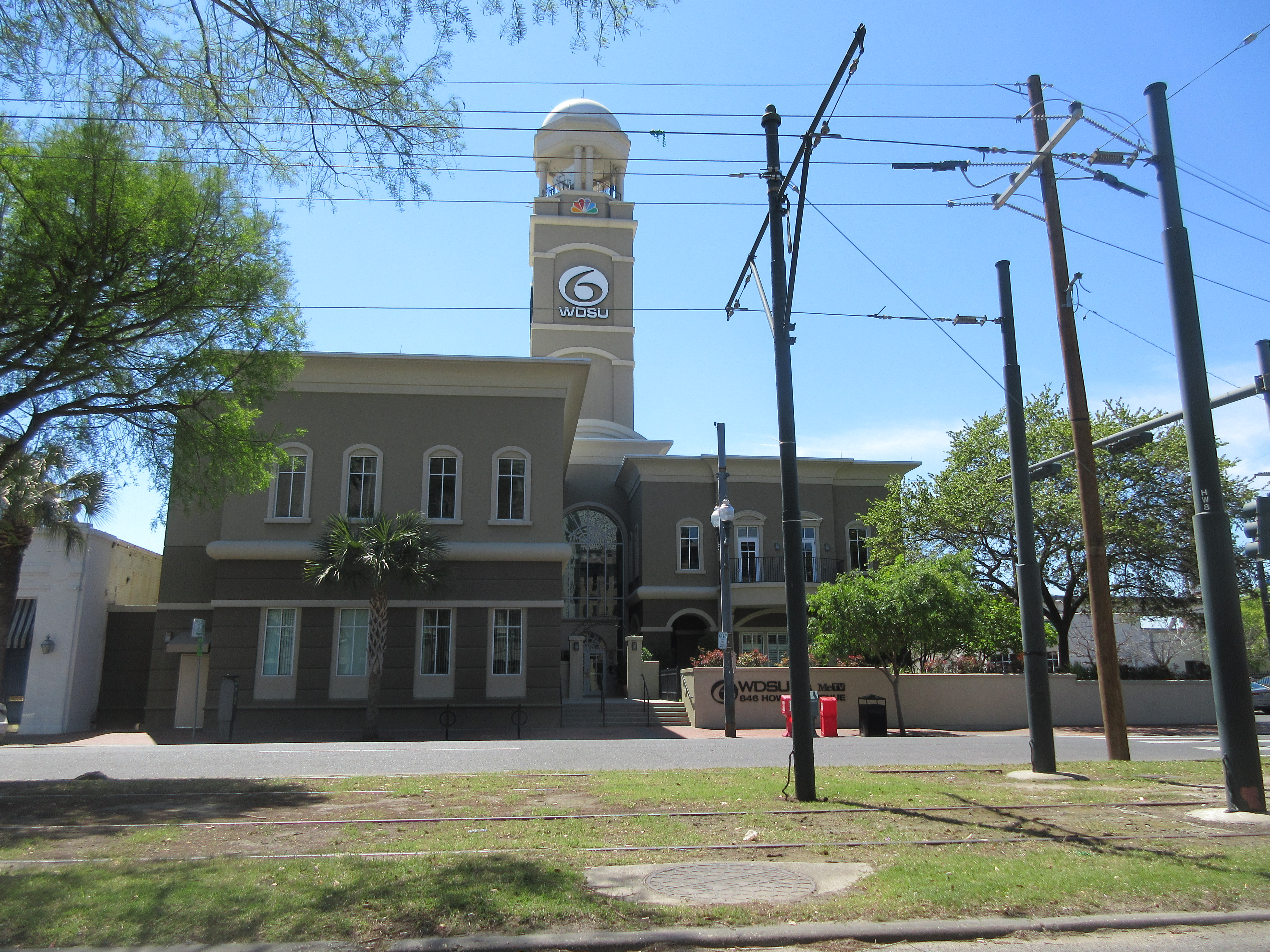 New Orleans - WDSU tv station studios on Howard Avenue.